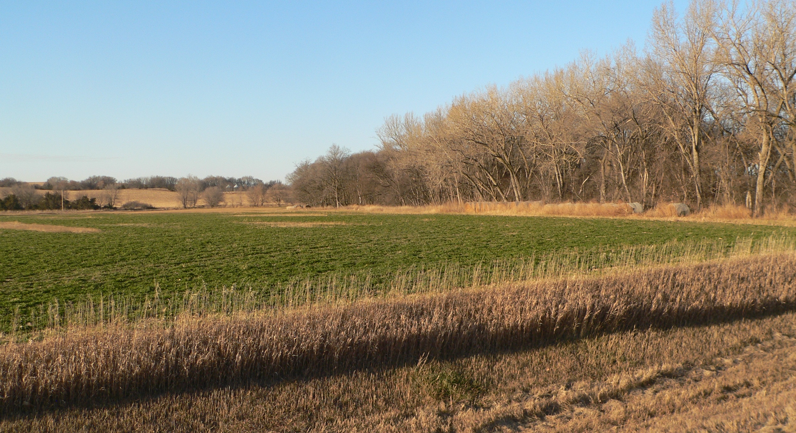 Vicinity of John Dunbar Pawnee mission site in Nance County, Nebraska. Camera is facing generally northward from Nebraska Highway 22 just west of Council Creek (formerly known as Plum Creek) crossing; the trees right of center are along the creek.